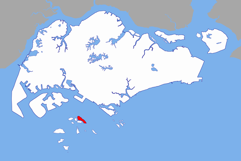 Created by Vsion